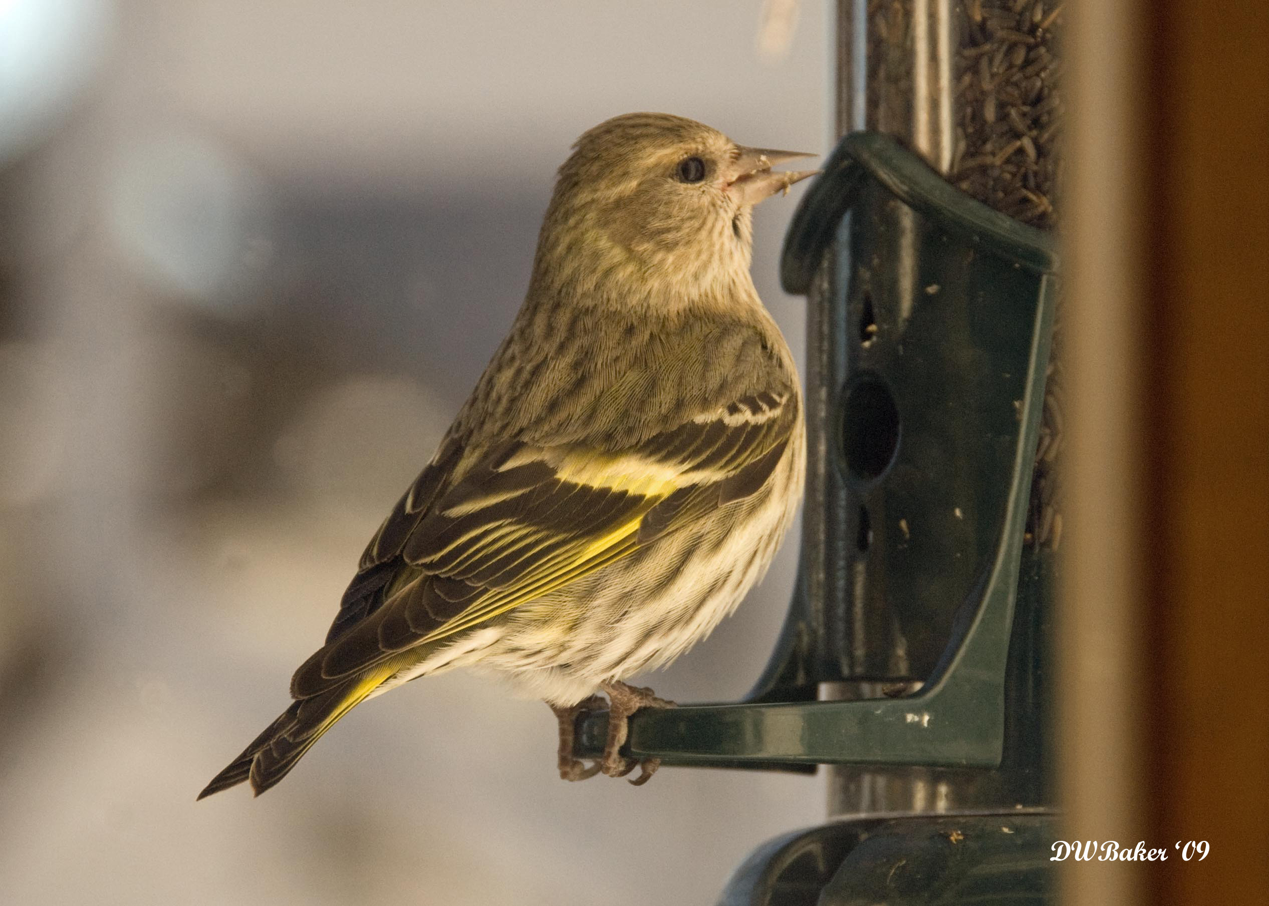 Pine siskin at local feeder